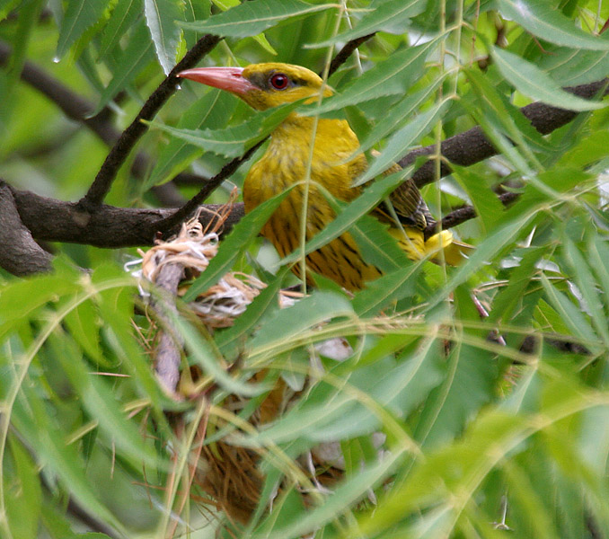 Indian Golden Oriole Oriolus kundoo - Hindi: Peelak, Kash: Poshnul, Pun: Pilak, Ben: Sona bau, Ass: Patmadoi, Guj: Soneri peelak, Peelak, Mar: Peelak, Haldya, Kanchan, Amrapakshi, Ori: Haladi basanta, Ta: Manga pala, Te: Vanga pandu, Mal: Manjakili, Kan: Suvarna pakshi - in Hyderabad, India.